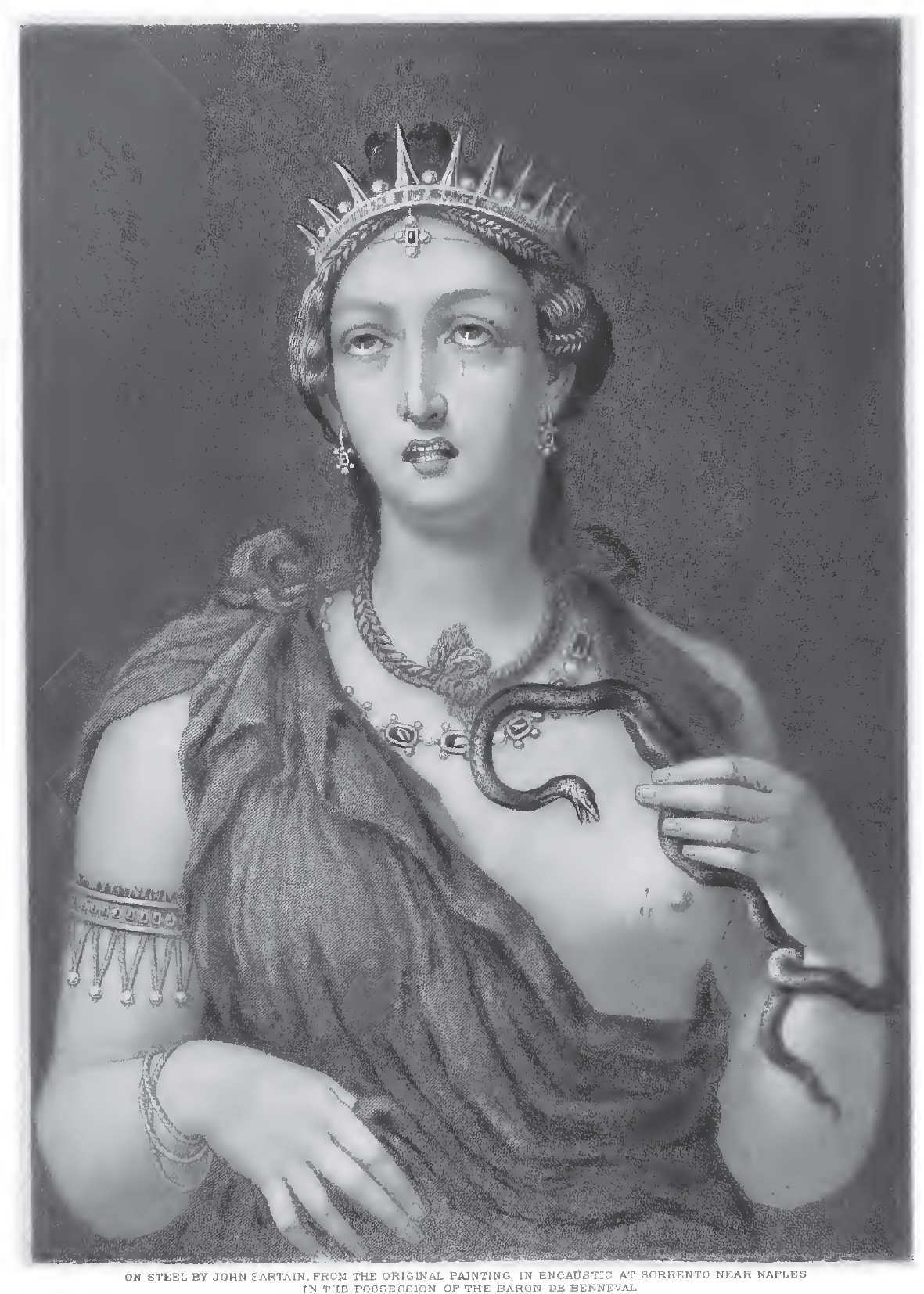 A steel engraving depicting Caesar Augustus' now lost painting of Cleopatra VII in encaustic, which was discovered at Emperor Hadrian's Villa (near Tivoli, Italy) in 1818. She is seen here wearing the golden radiant crown of the Ptolemaic rulers (Sartain, 1885, pp. 41, 44) and being bitten by an asp in an act of suicide. She also wears the knot of Isis (i.e. tyet) around her neck, which corresponds to Plutarch's description of her wearing the robes of the Egyptian goddess Isis (Plutarch's Lives, translated by Bernadotte Perrin, Cambridge, MA: Harvard University Press; London: William Heinemann Ltd., 1920, p. 9.)